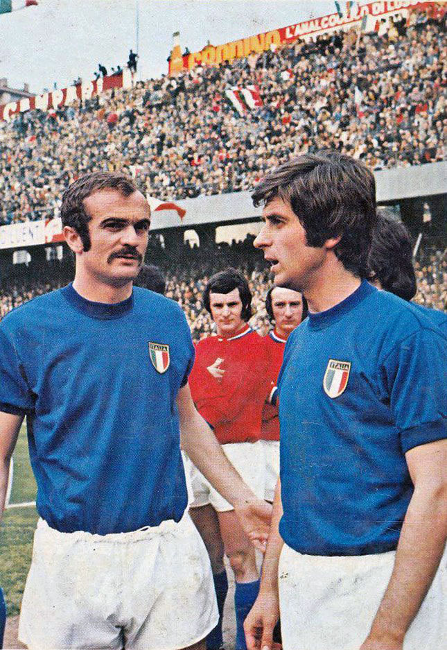 Italian footballers Sandro Mazzola (left) and Gianni Rivera (right) before the 1974 FIFA World Cup qualifying game v Luxembourg at Luigi Ferraris Stadium in Genoa, 31 March 1973. Italy won the match 5-0